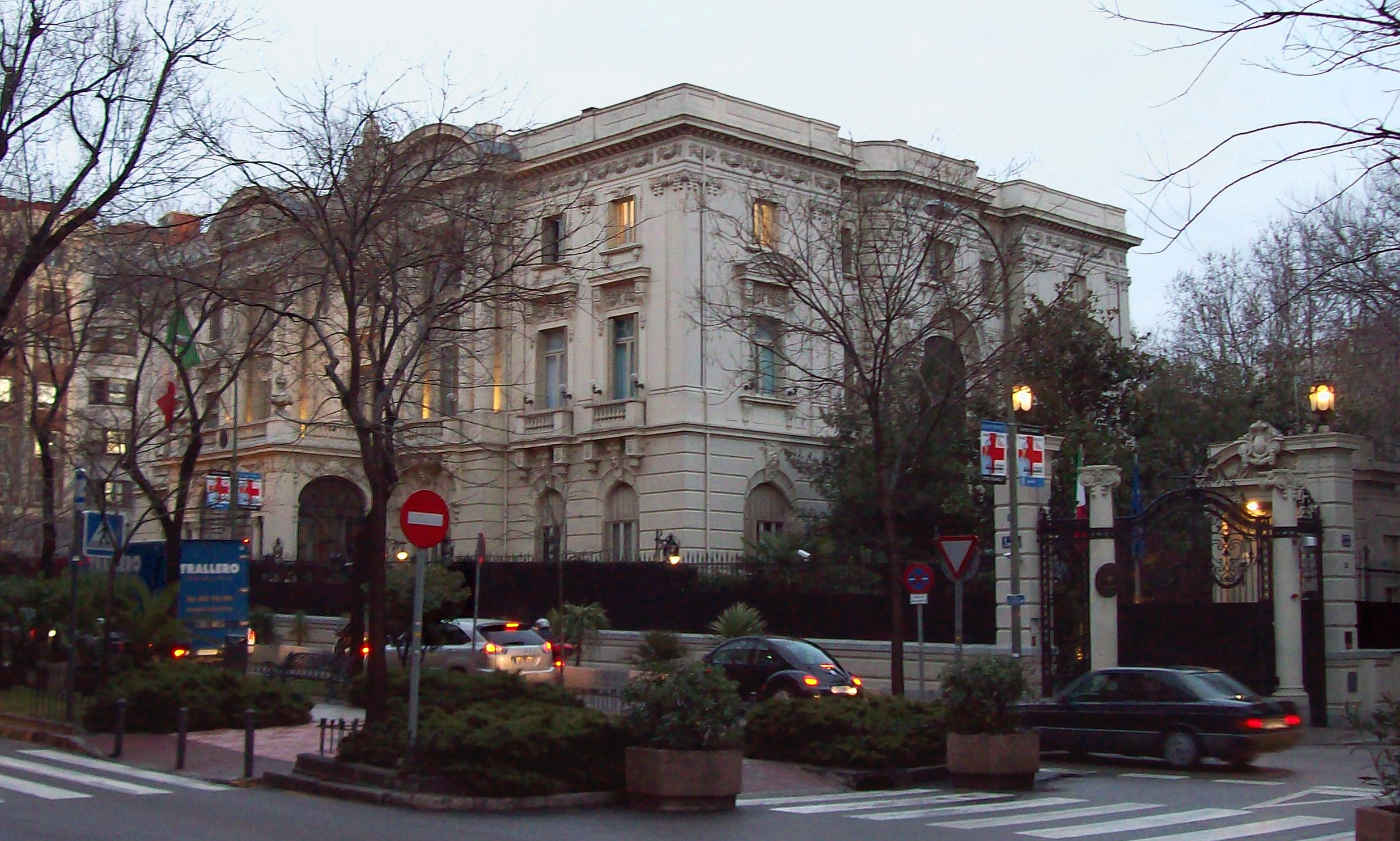 View, from the north-west angle, of the Italian Embassy seat in Madrid (Spain), also known as Palacio de Amboage.